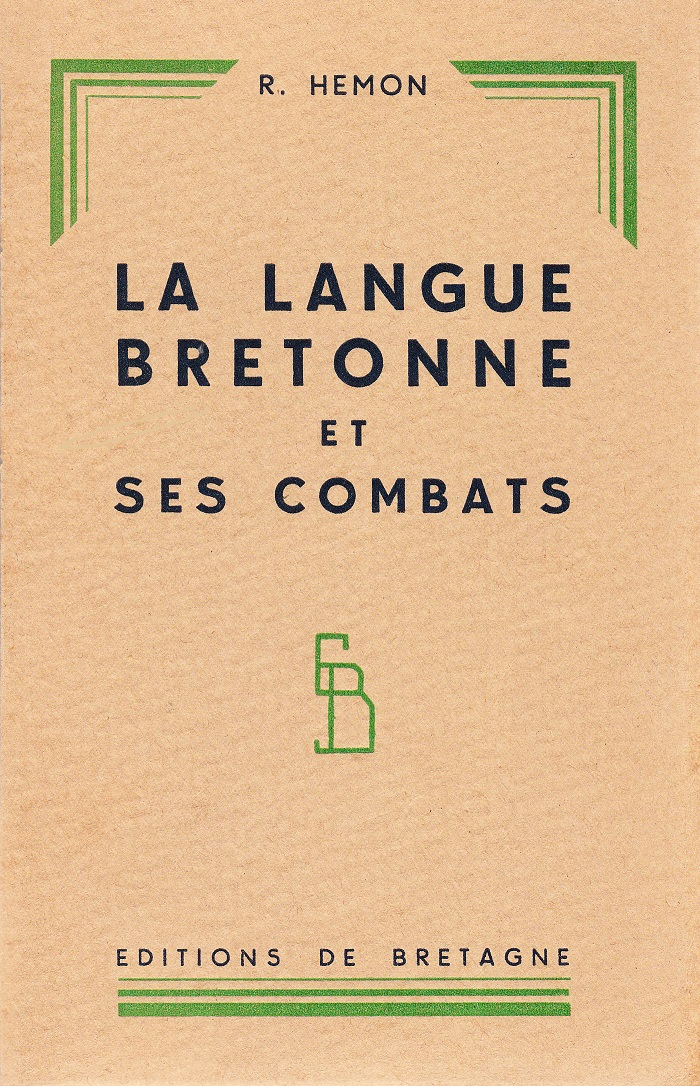 Scanned from the original book, published by Éditions de Bretagne in La Baule, 1947.